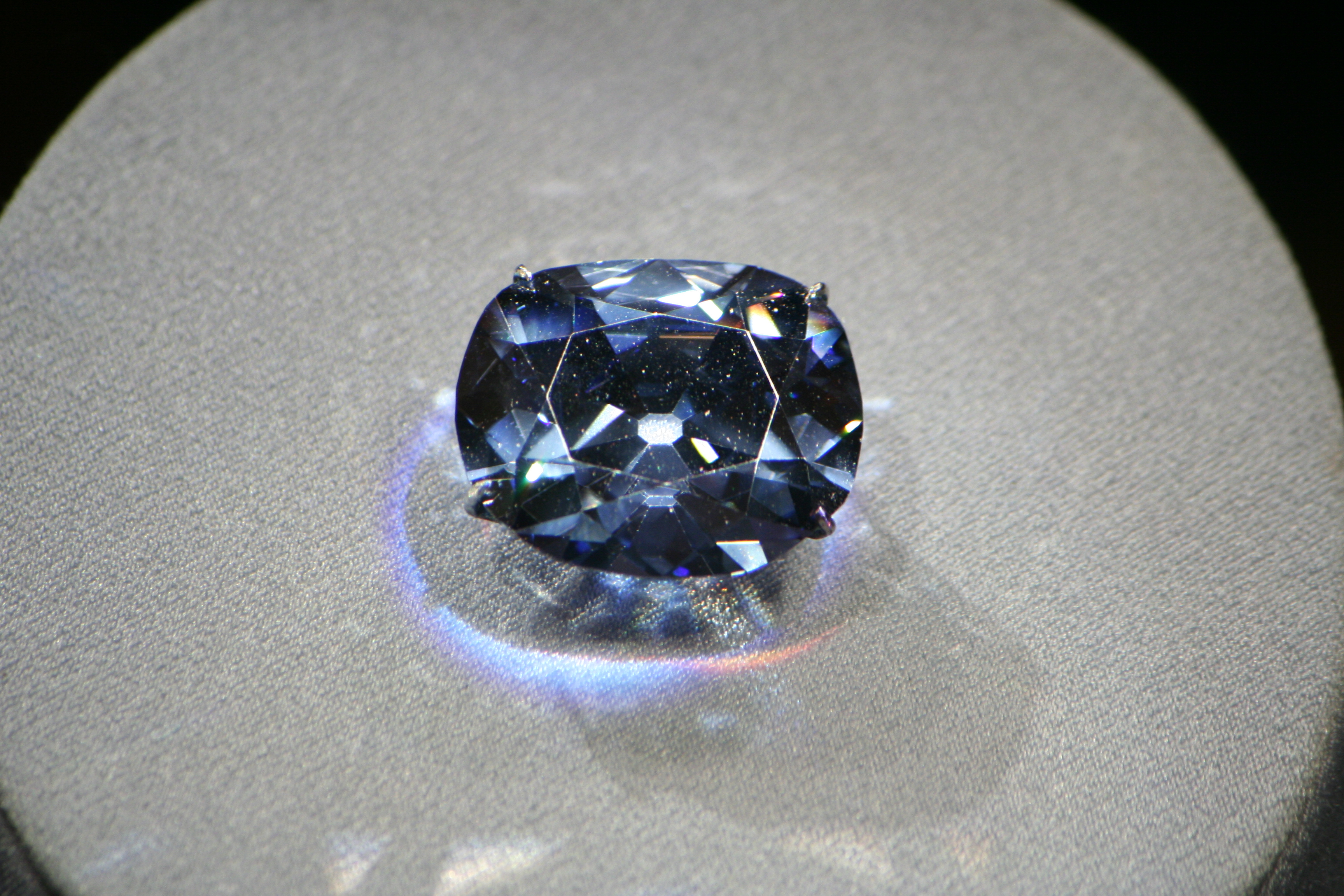 Another view of Hope Diamond with lighting. See another version for a clearer view, but less "brilliance" at HopeDiamondwithLighting.JPG.